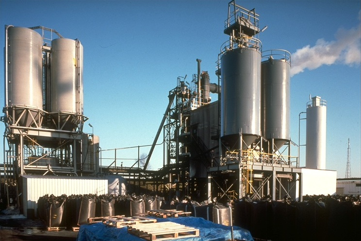 World Largest Activated carbon reactivation furnace plant Feluy Belgium Chemviron Carbon